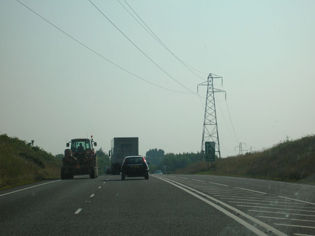 Just past Marazanvose. On the A30 just past the small village of Marazanvose.